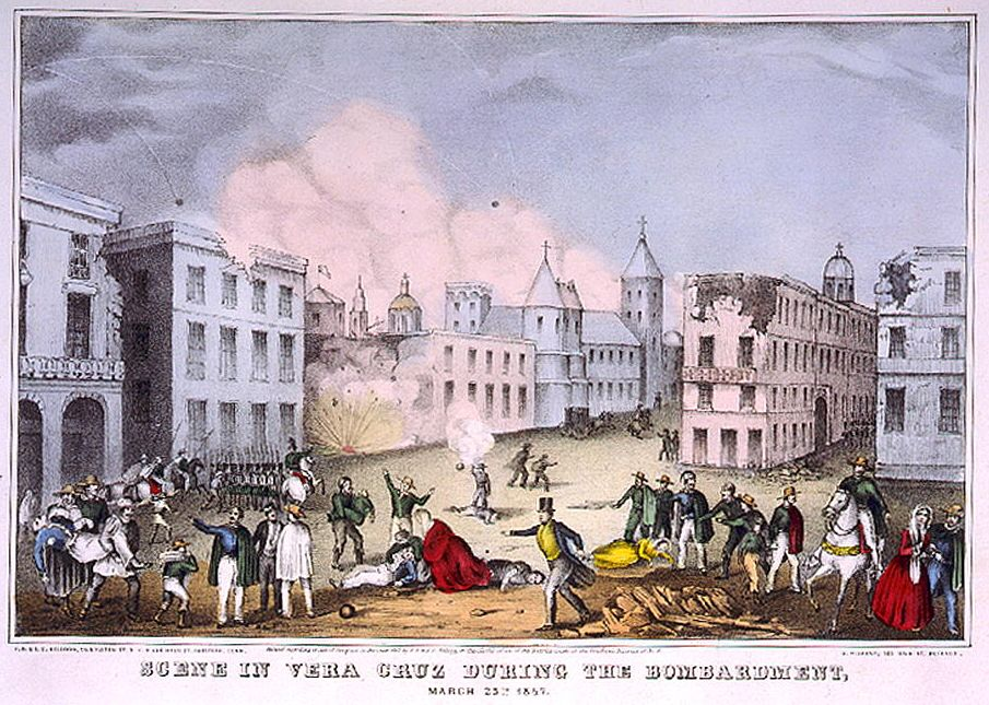 Scene in Veracruz during the bombardment, March 25, 1847